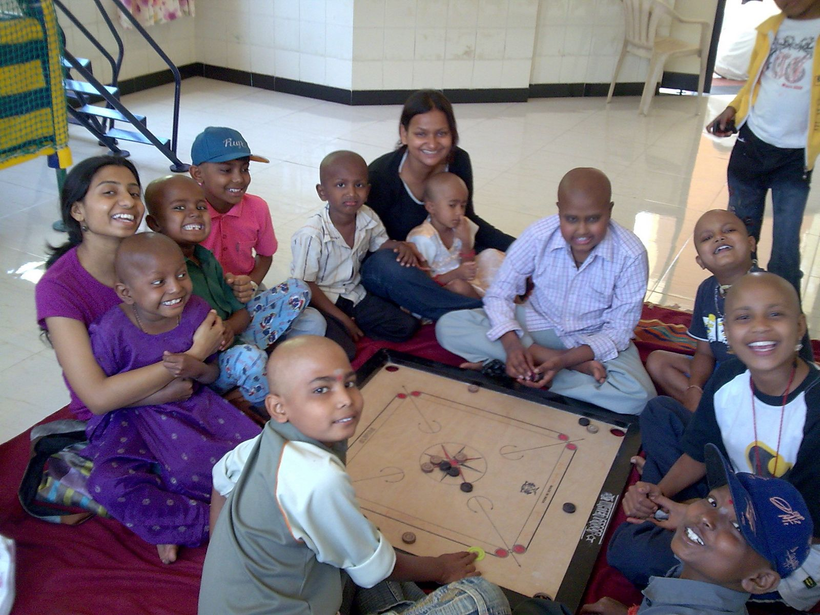 Seva volunteers working with the children with cancer at Kidwai hospital Bangalore